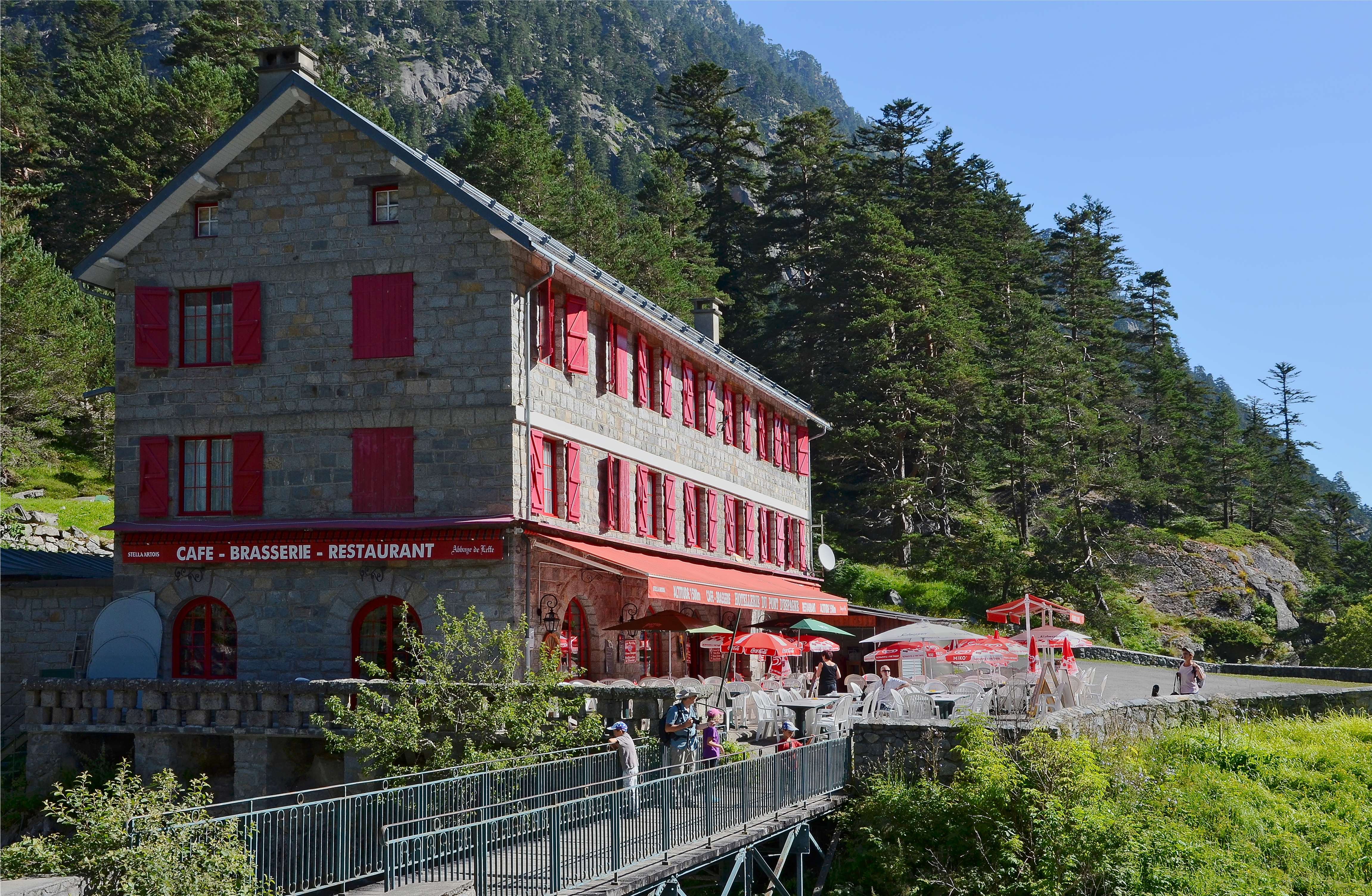 Hotel of Pont d'Espagne, as seen from S-SE; Cauterets, Hautes-Pyrénées, France.